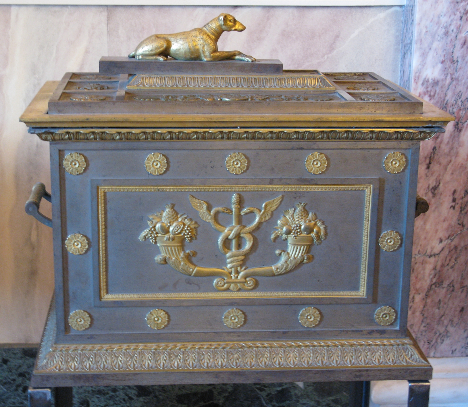 Iron box with bronze jewels, in which the Greek Constitution of 1844 was kept.